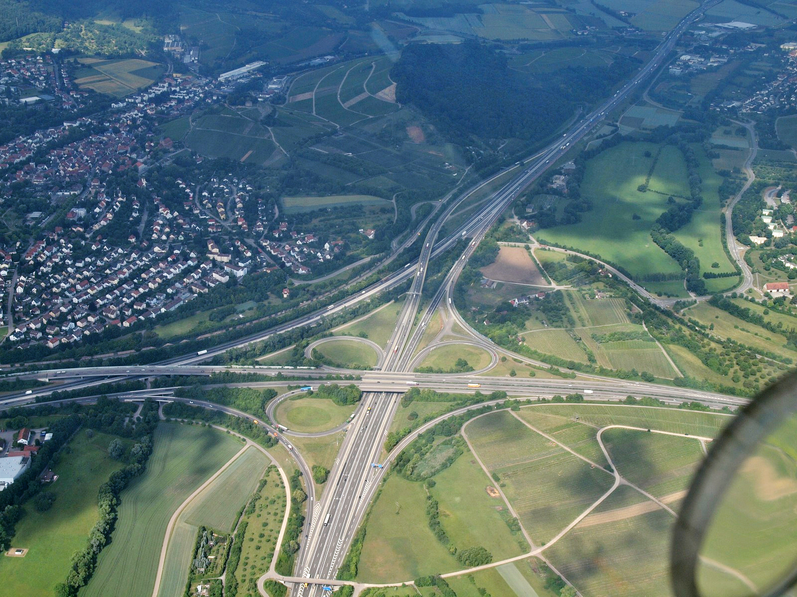 Aerial view of Weinsberg motorway junction, Germany. Front: A6 to Nuremberg, left: A81 to Stuttgart, back: A6 to Mannheim, right: A81 to Würzburg.